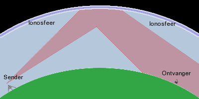 Principle of shortwave radio.